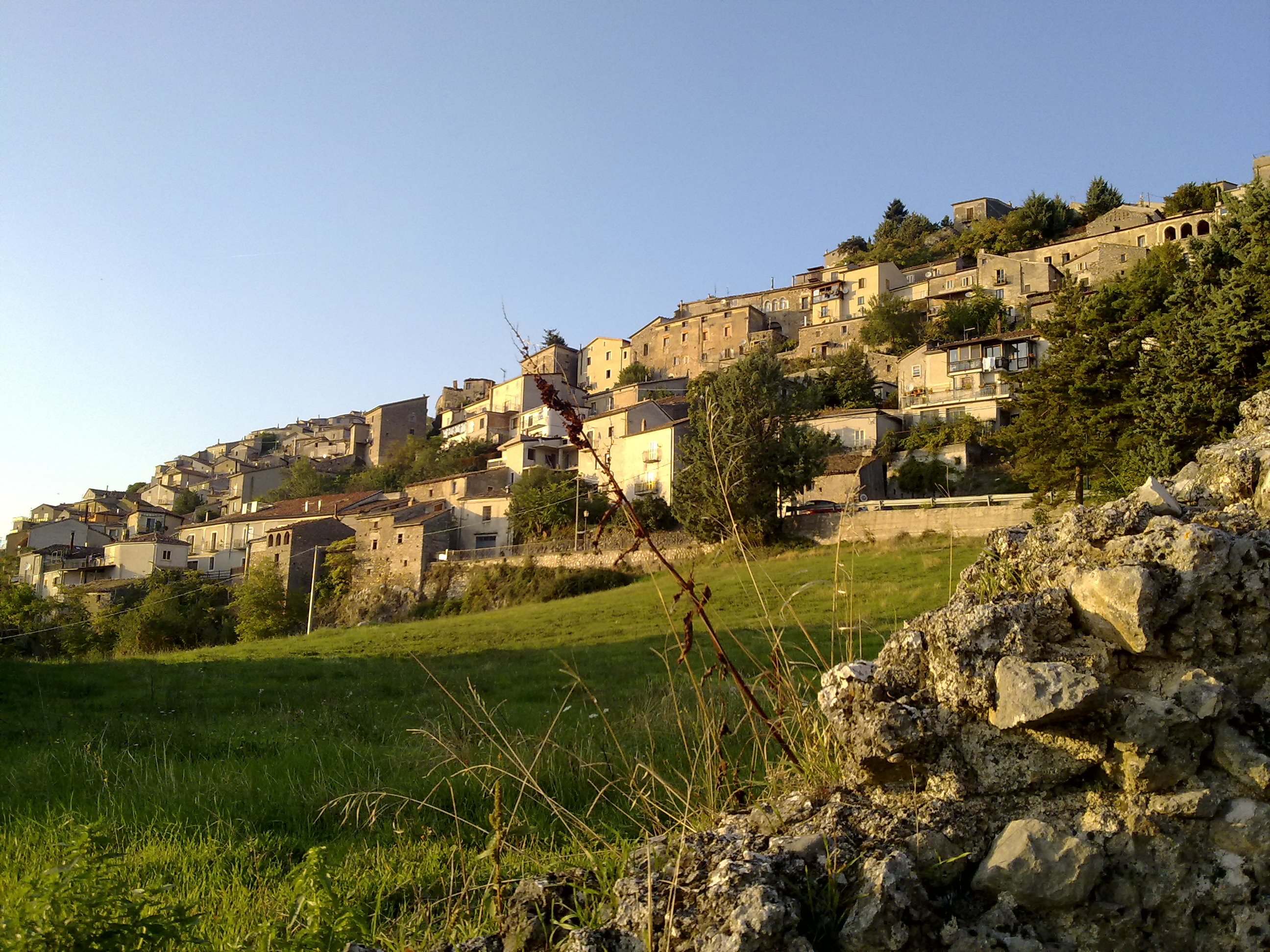 A view of Marsicovetere.